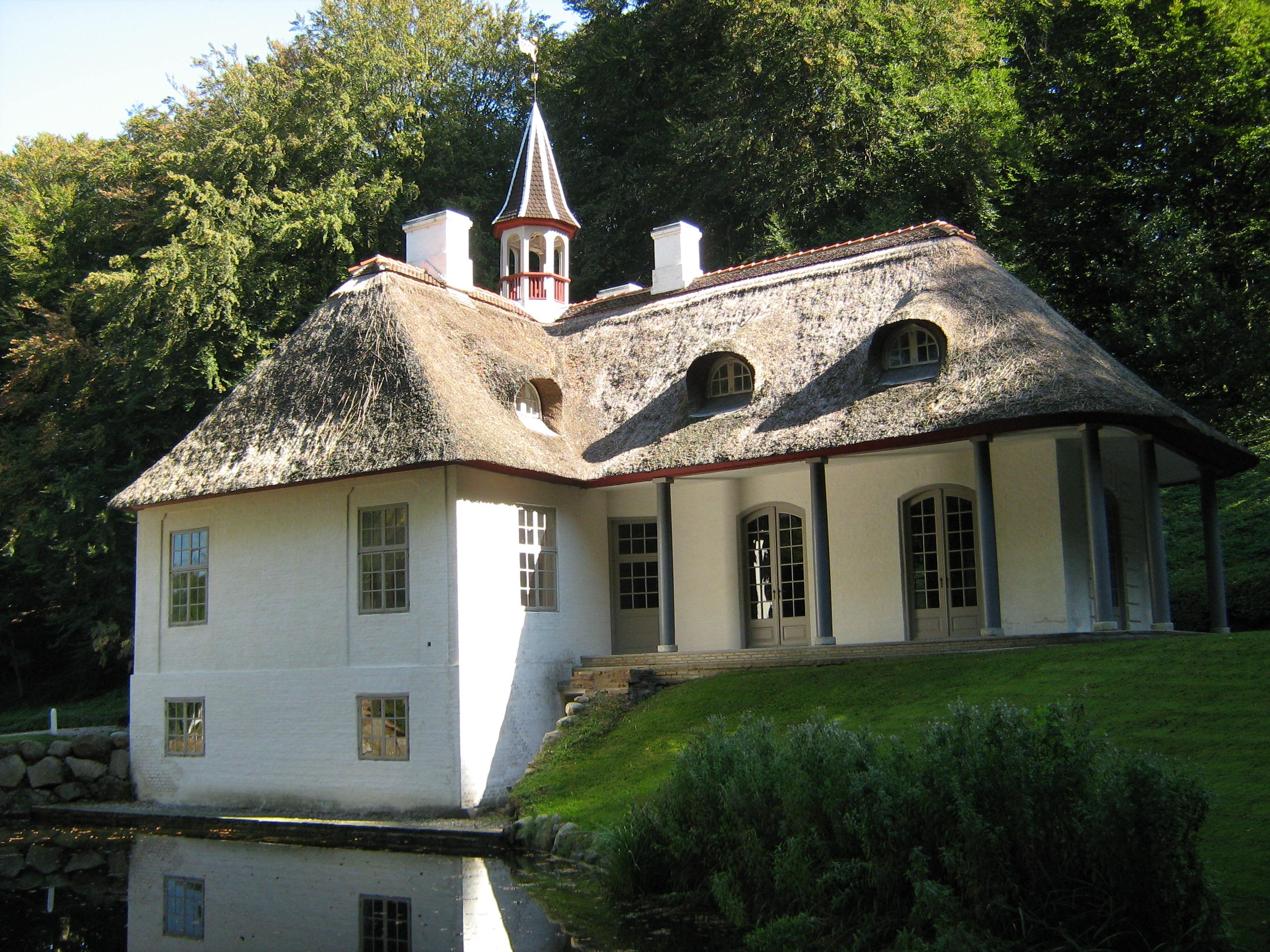 Liselund, Møn, Denmark. Gammel Slot (old palace or manor) from the south-east.